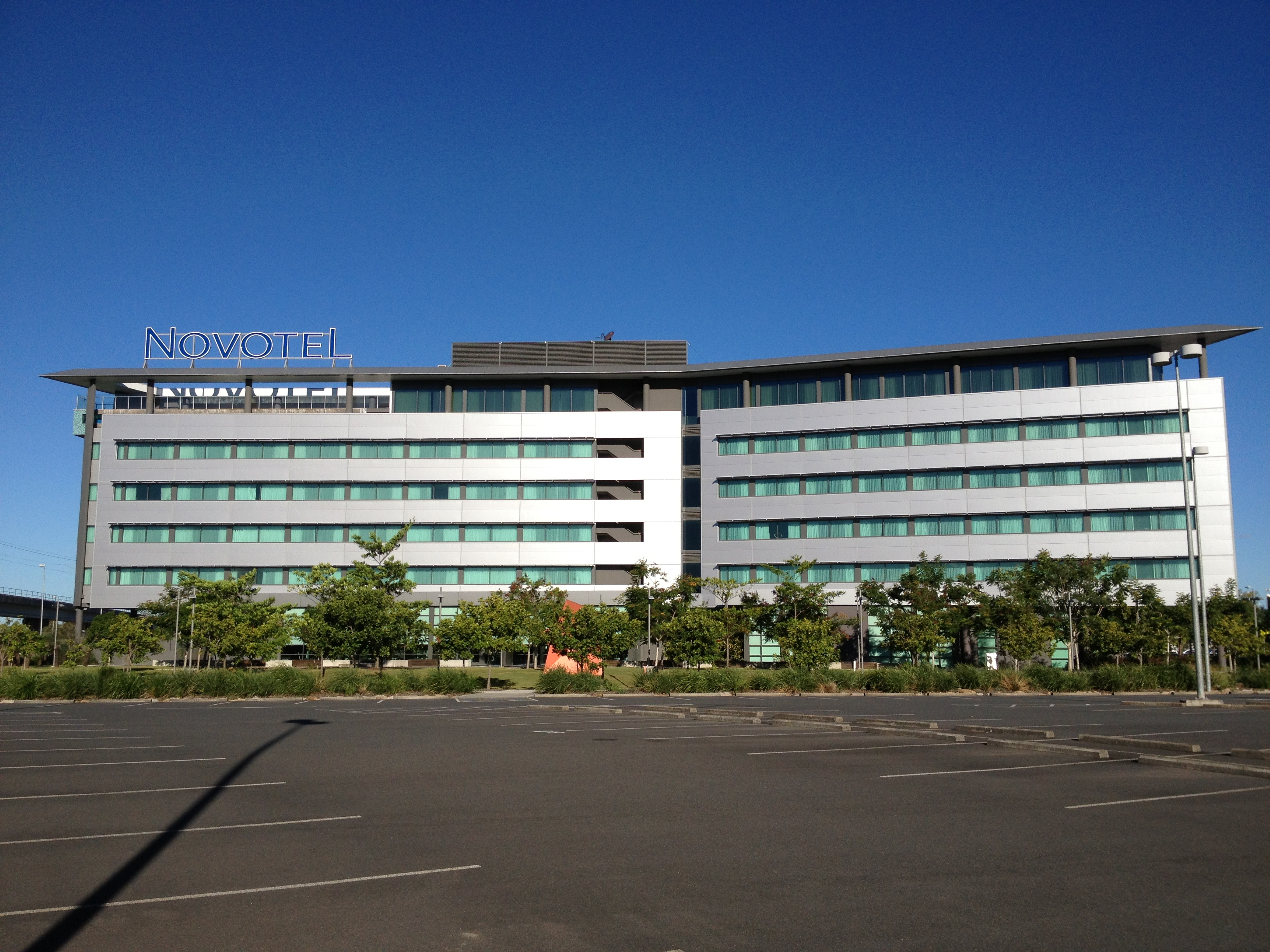 Western elevation of Novotel Hotel, Brisbane Airport, May 2013